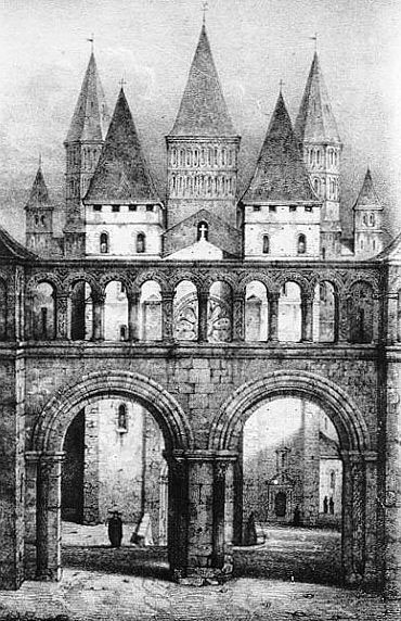 The Monastery of Cluny, France - Entrance to the Abbey